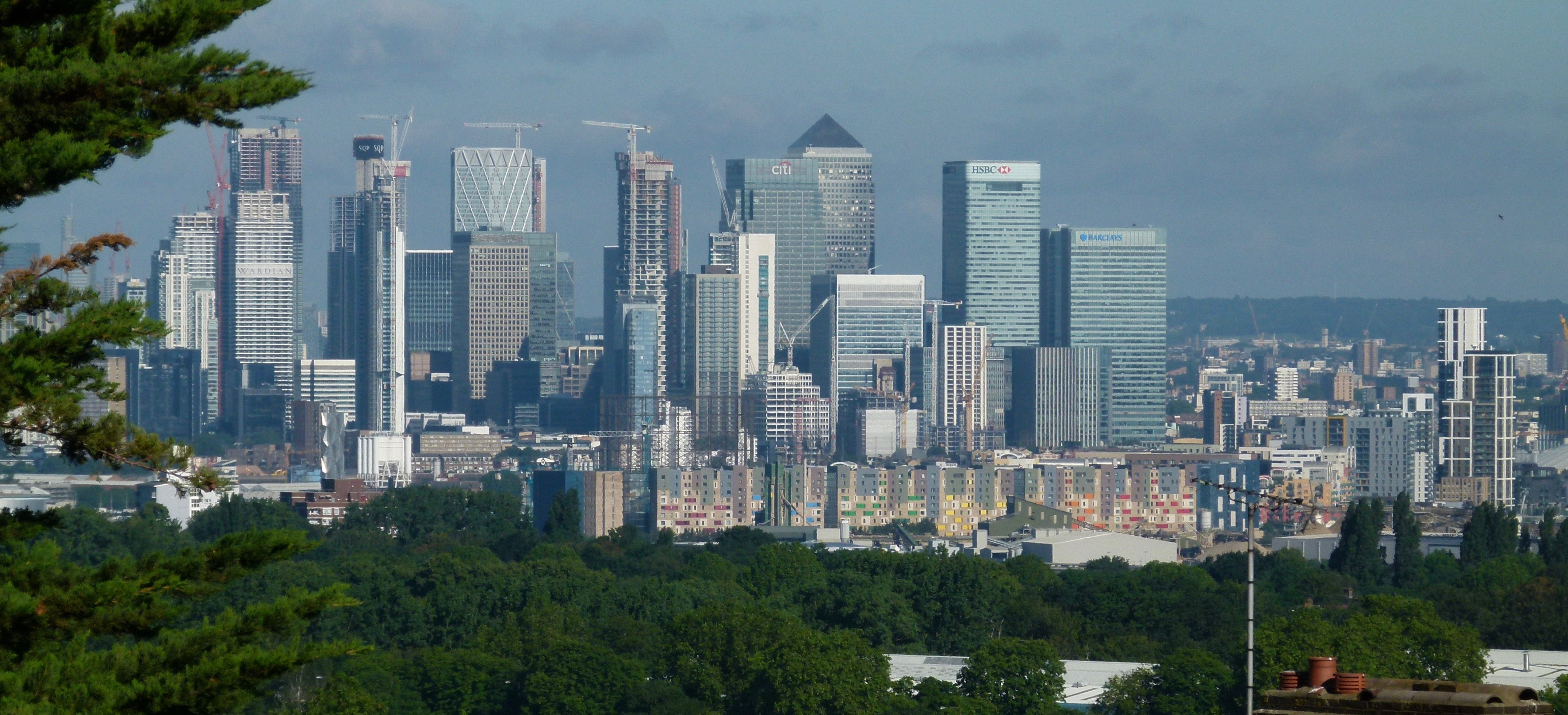 View from Shooters Hill of Canary Wharf, London, UK. In the foreground Repository Woods in Woolwich and Greenwich Peninsula.